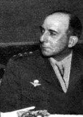 Group photograph cropped on General de Lattre